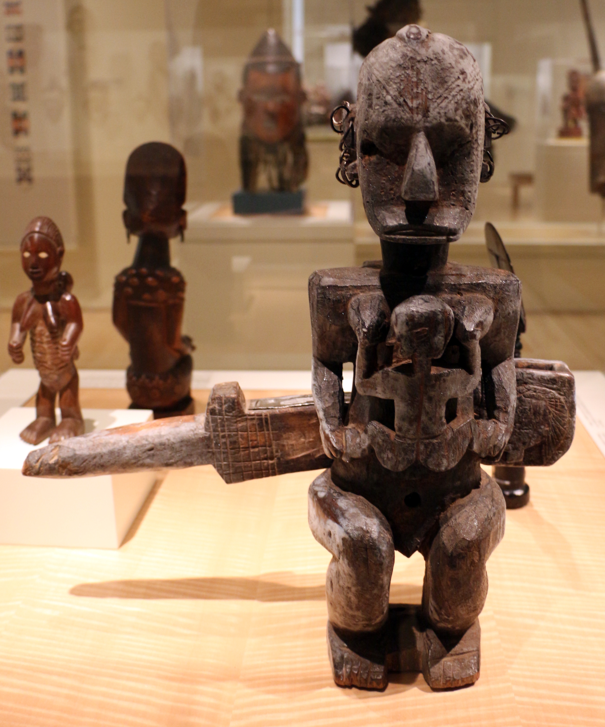 African art in the Indianapolis Museum of Art